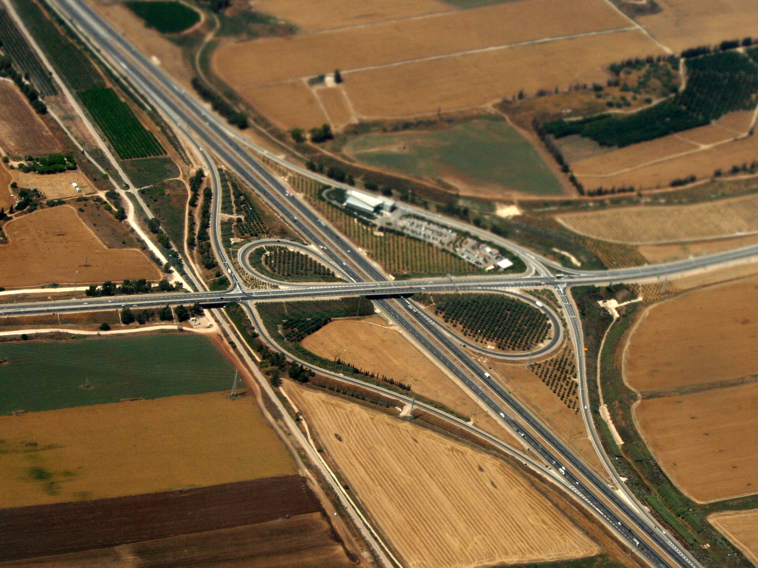 Nachshonim interchange on Road 6 in Israel